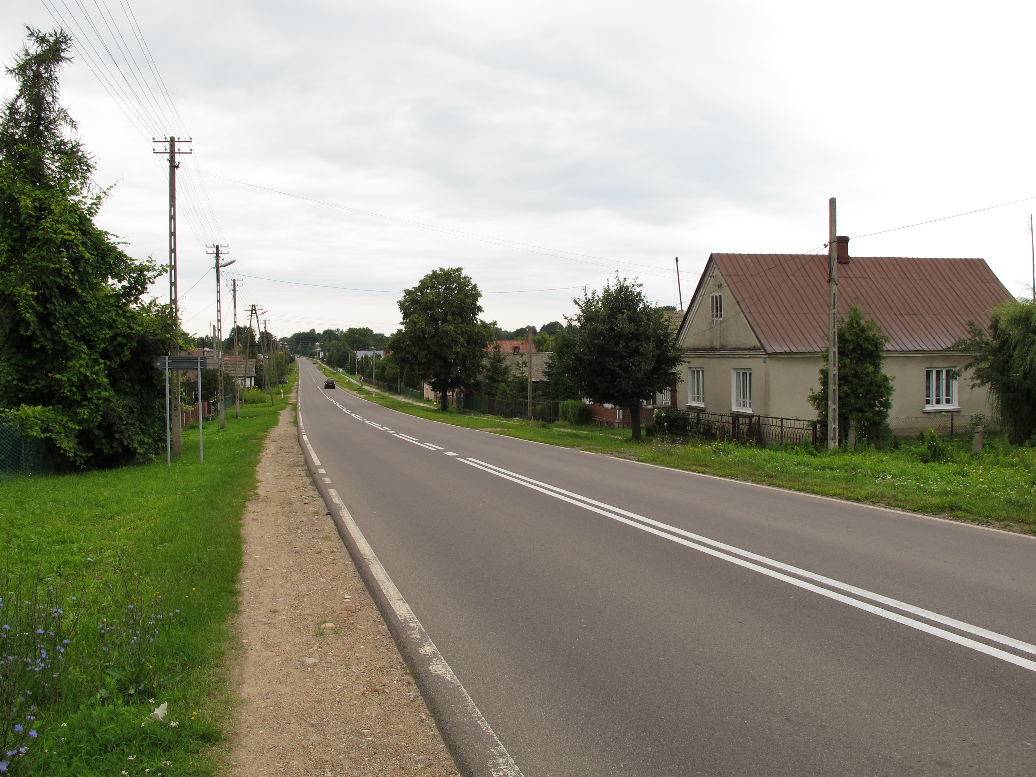 NR19 in the Ryboły village, gmina Zabłudów, podlaskie, Poland